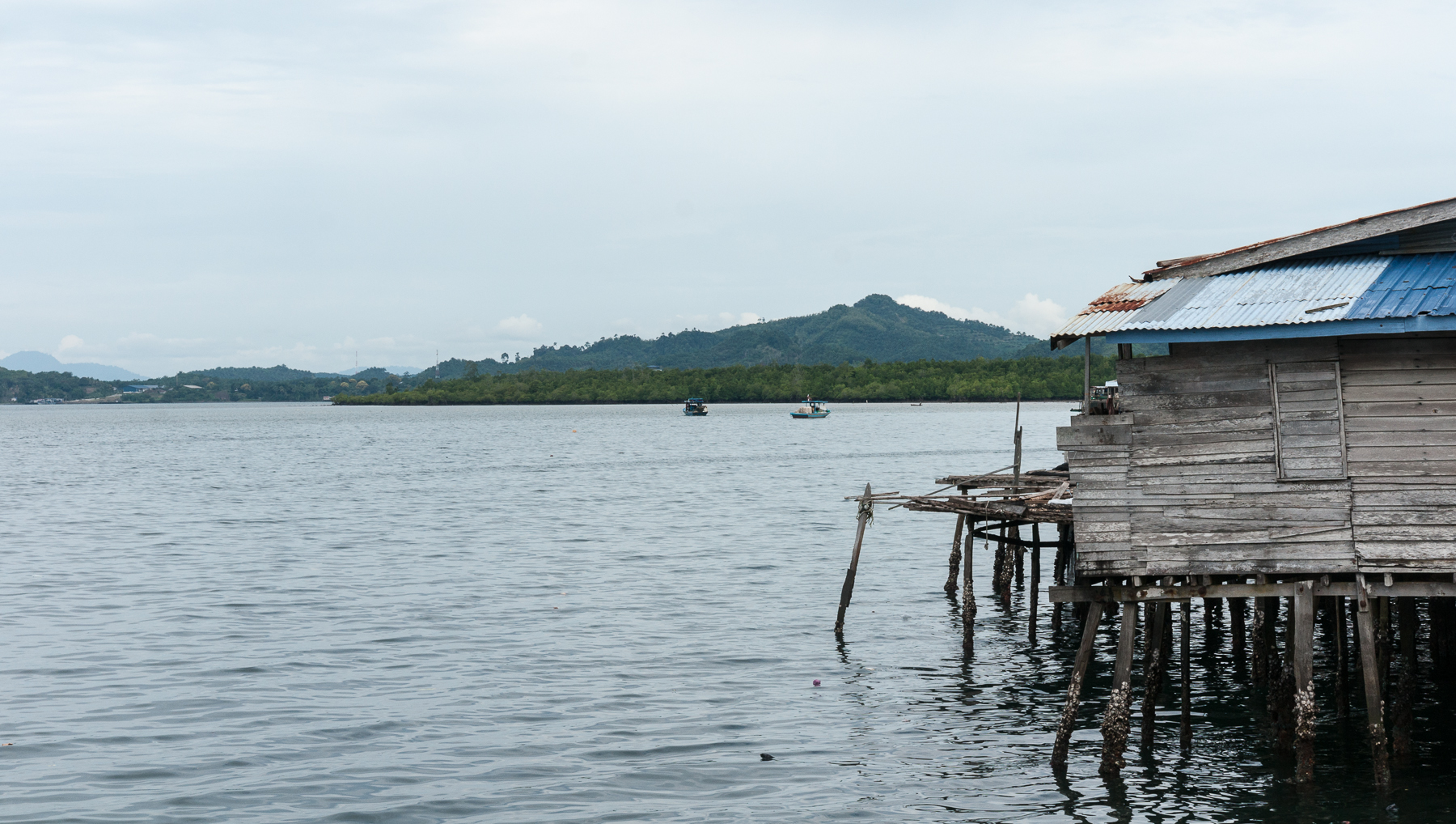 Kunak, Sabah: View from Jetty to the Darvel Bay; in the background Pulau Timbun Mata